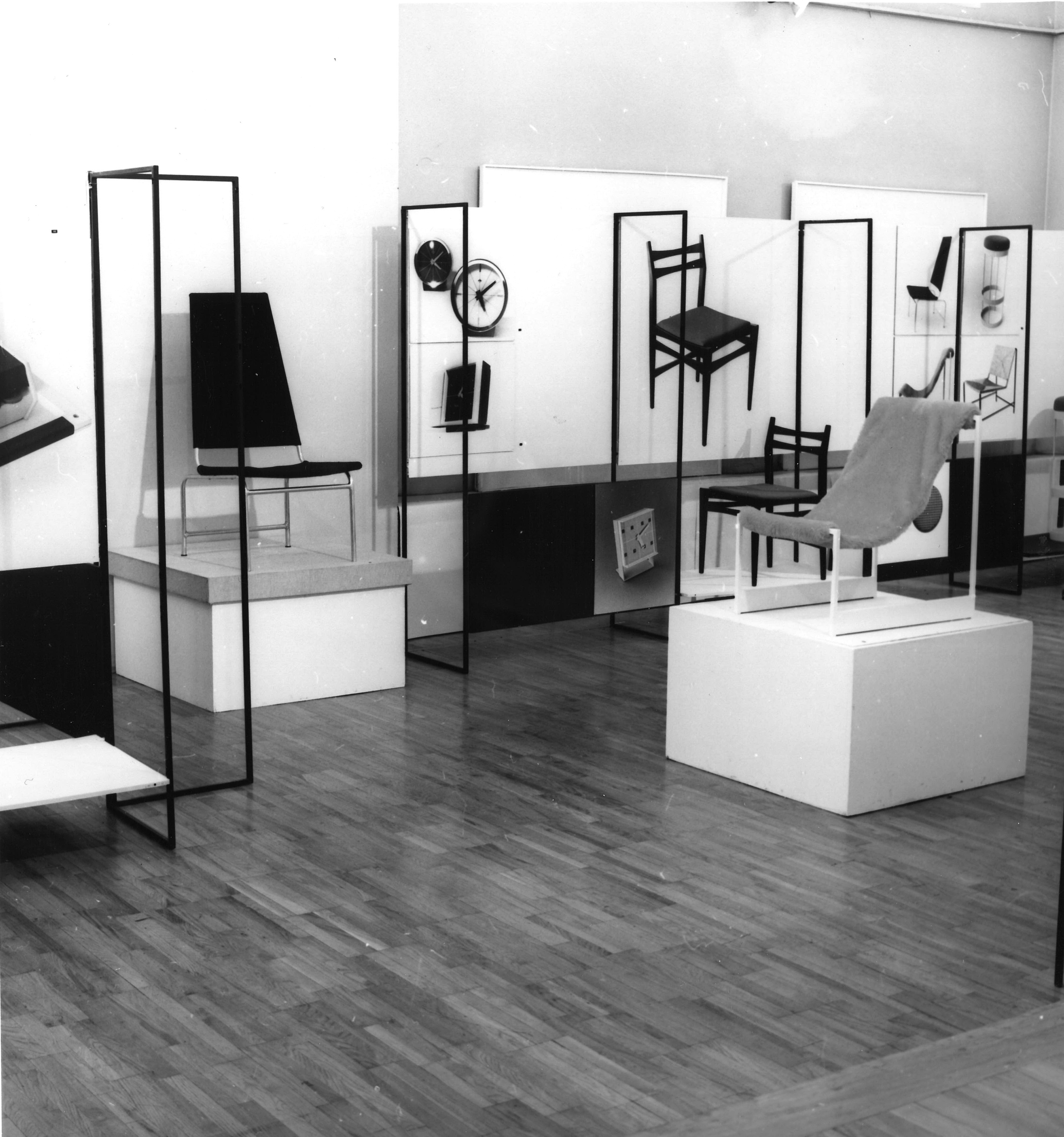 The solo exhibition of Gojko Varda at the Museum of Applied Arts in 1973